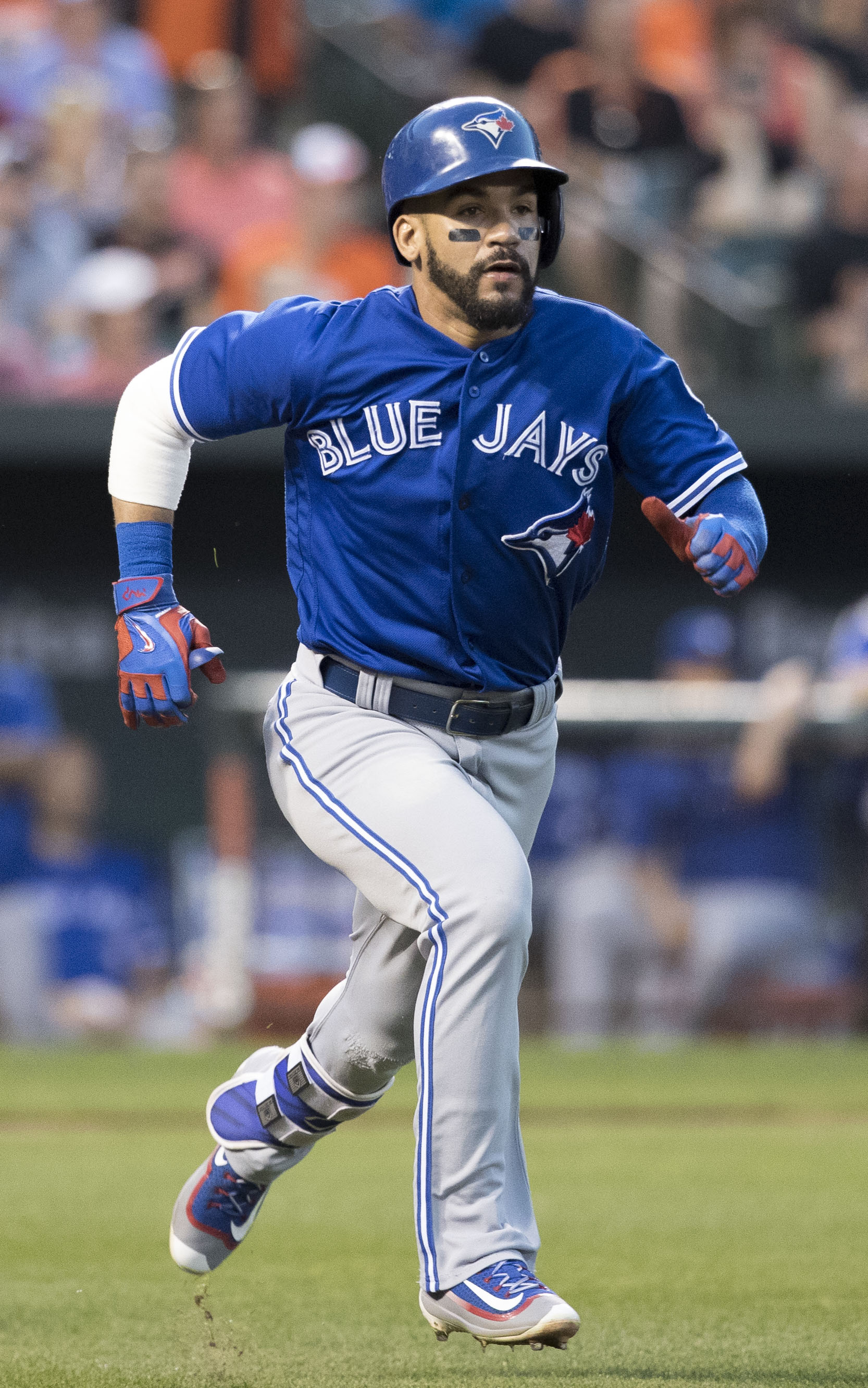 Devon Travis on August 30, 2016